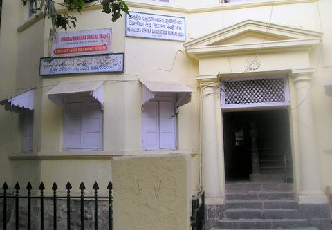 Situated at Matunga, Mumbai